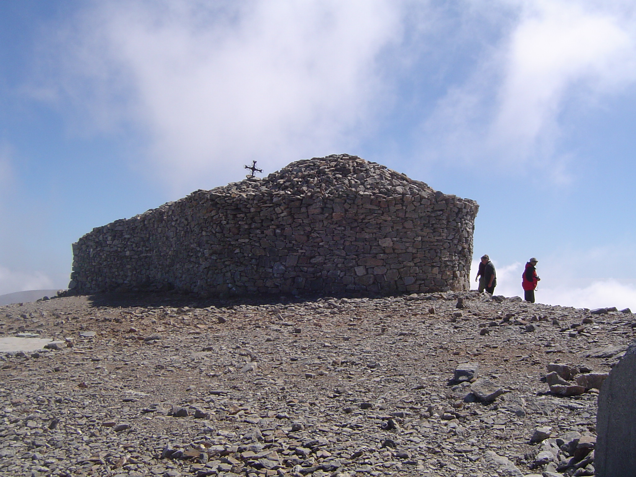 This is a photography of Natura 2000 protected area with ID GR4330005